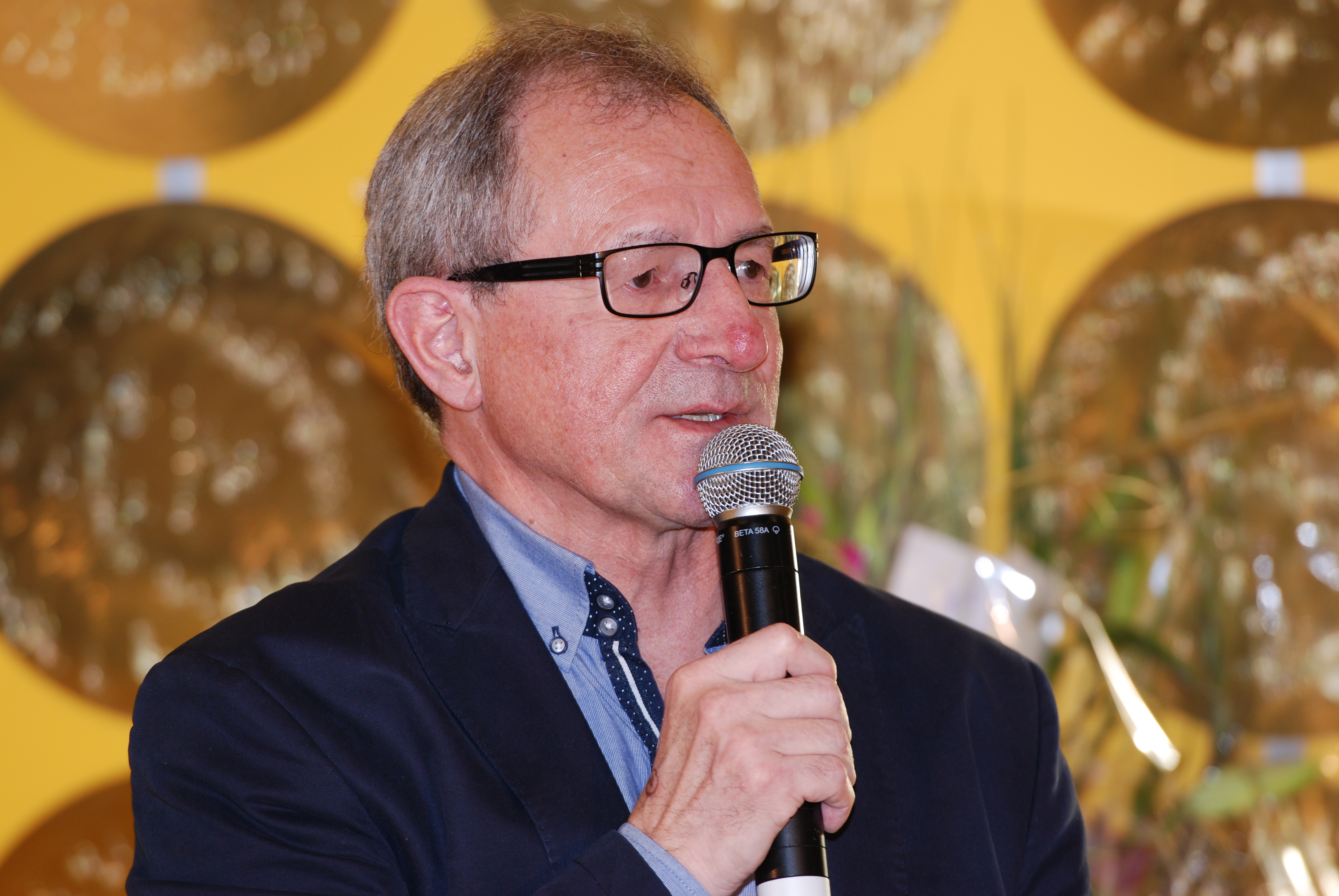 The professor and sami linguist Mikael Svonni at Göteborg Book Fair 2013.